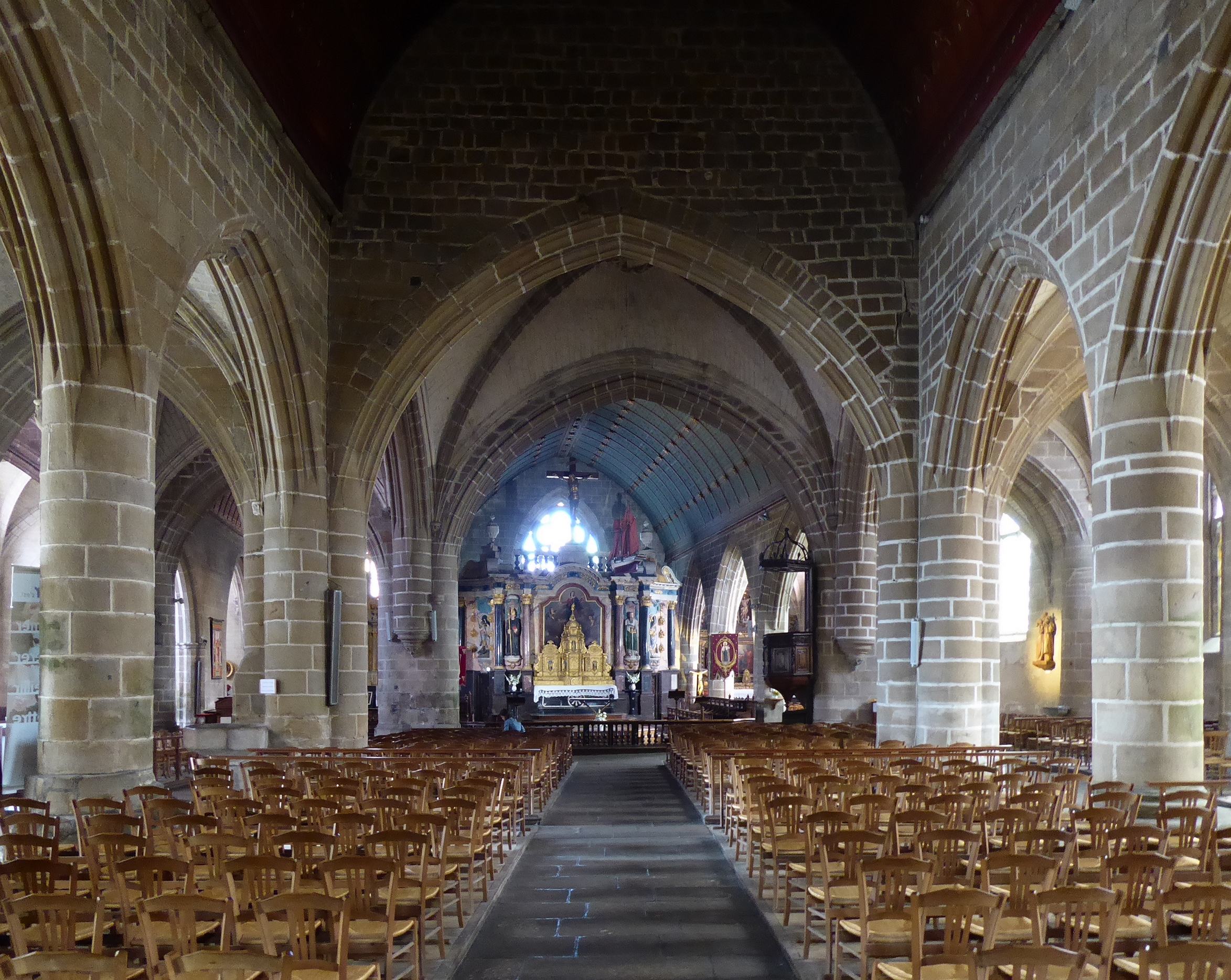 Interior of Église Saint-Guénolé de Batz-sur-Mer